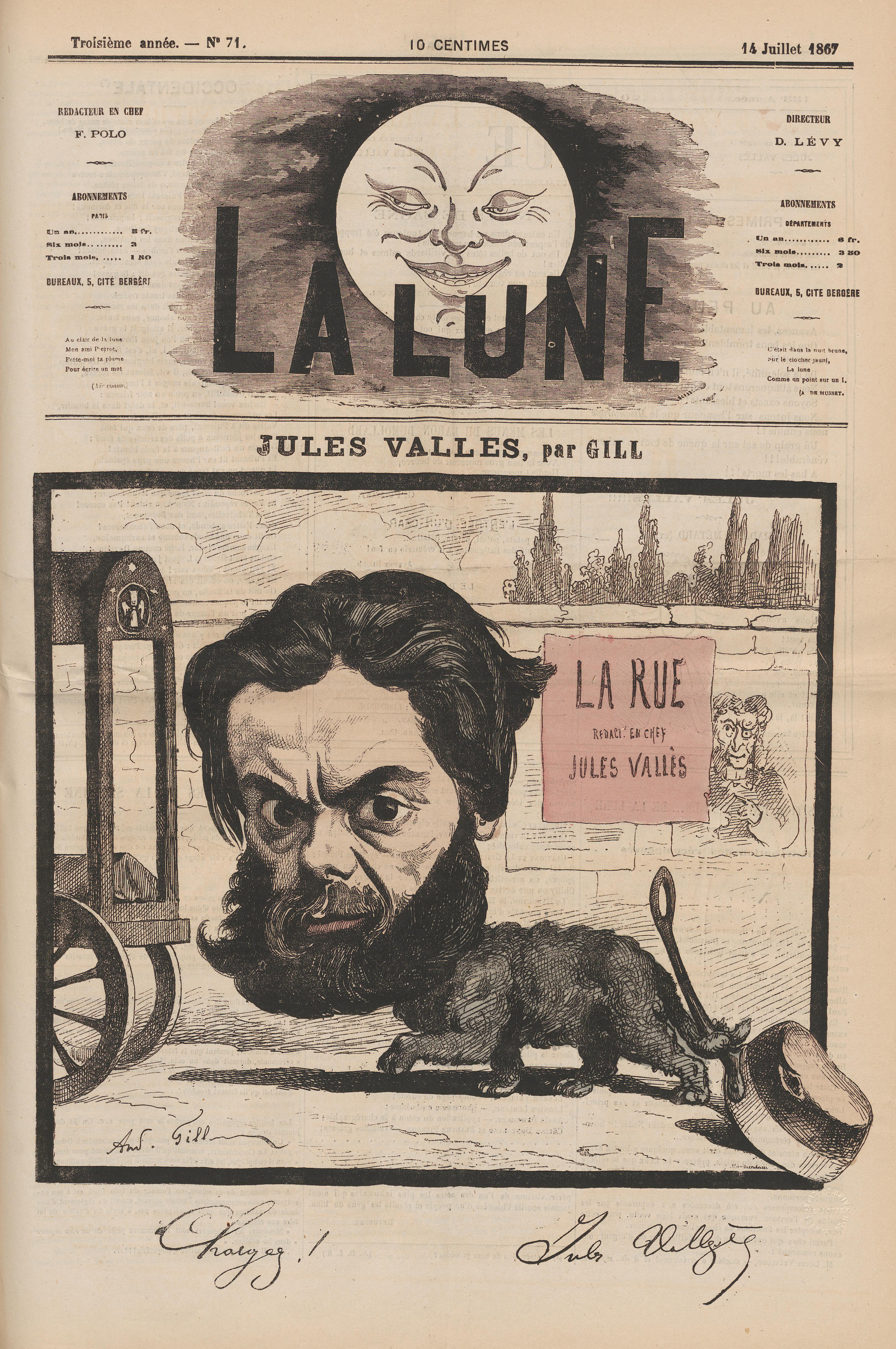 Caricature of Jules Vallès Cover of La Lune 14 July 1867 Hand-colored Engraving 12"w x 18"h